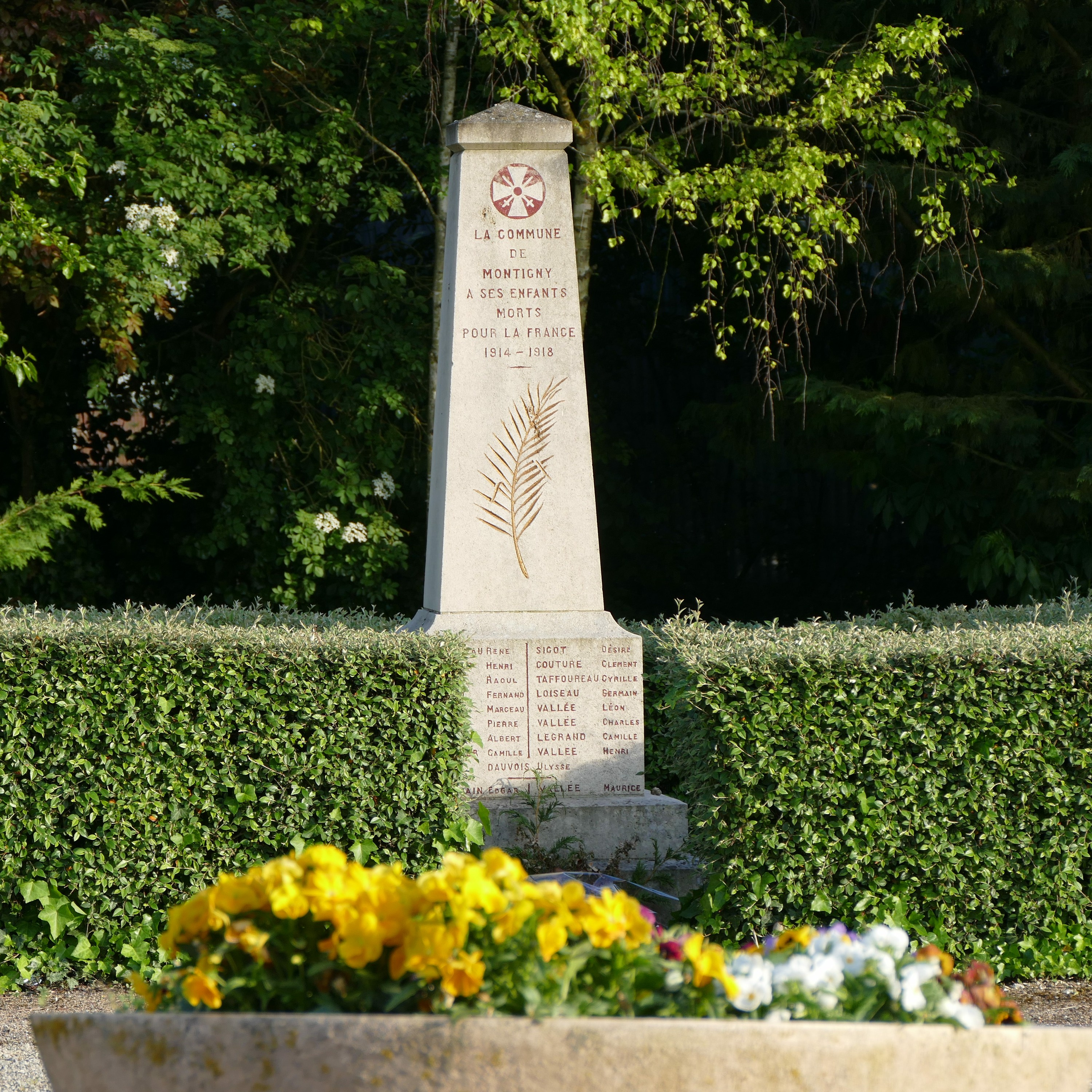 War memorial in Montigny (Loiret, Centre-Val de Loire, France).